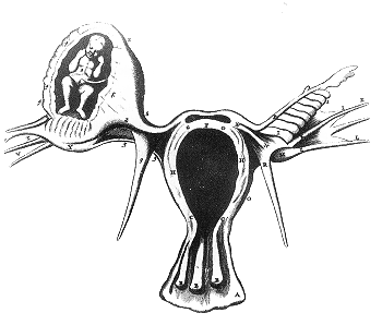 Ectopic pregnancy by R. de Graaf in the monograph De Mulierum Organis Generationi Inservientibus, a reprint from the letter to the Royal Society of the French surgeon Benoit Vassal from 1669